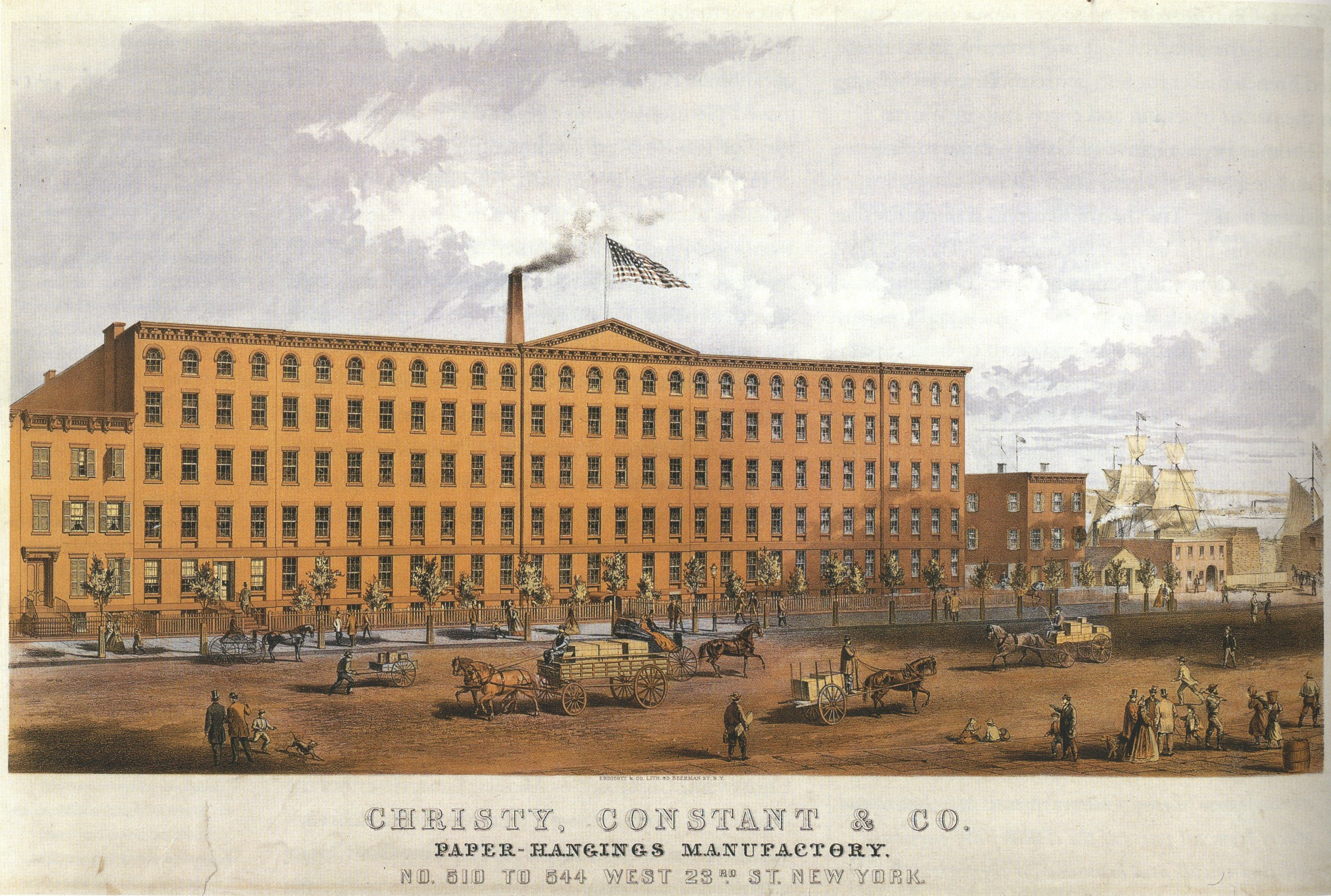 Lithograph showing the Factory of Christy, Consatnt & Co. (New York City), one of the largest American wallpaper manufacturers of the 19th century. A detailed description of the factory can be found here